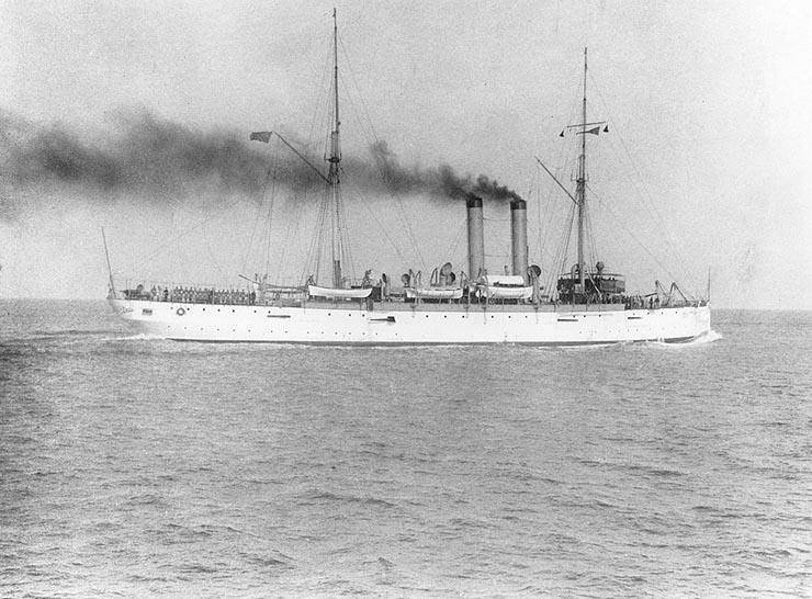 Photo #NH 59933-A USS Denver (Cruiser # 14) during the North Atlantic fleet review, 1905. Original caption: “Photo # NH 59933-A USS Denver underway during the North Atlantic Fleet review, 1905” — removed caption